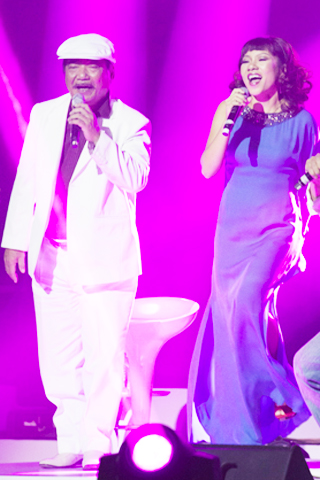 12 Aug 2012 / Hanoi, Vietnam.